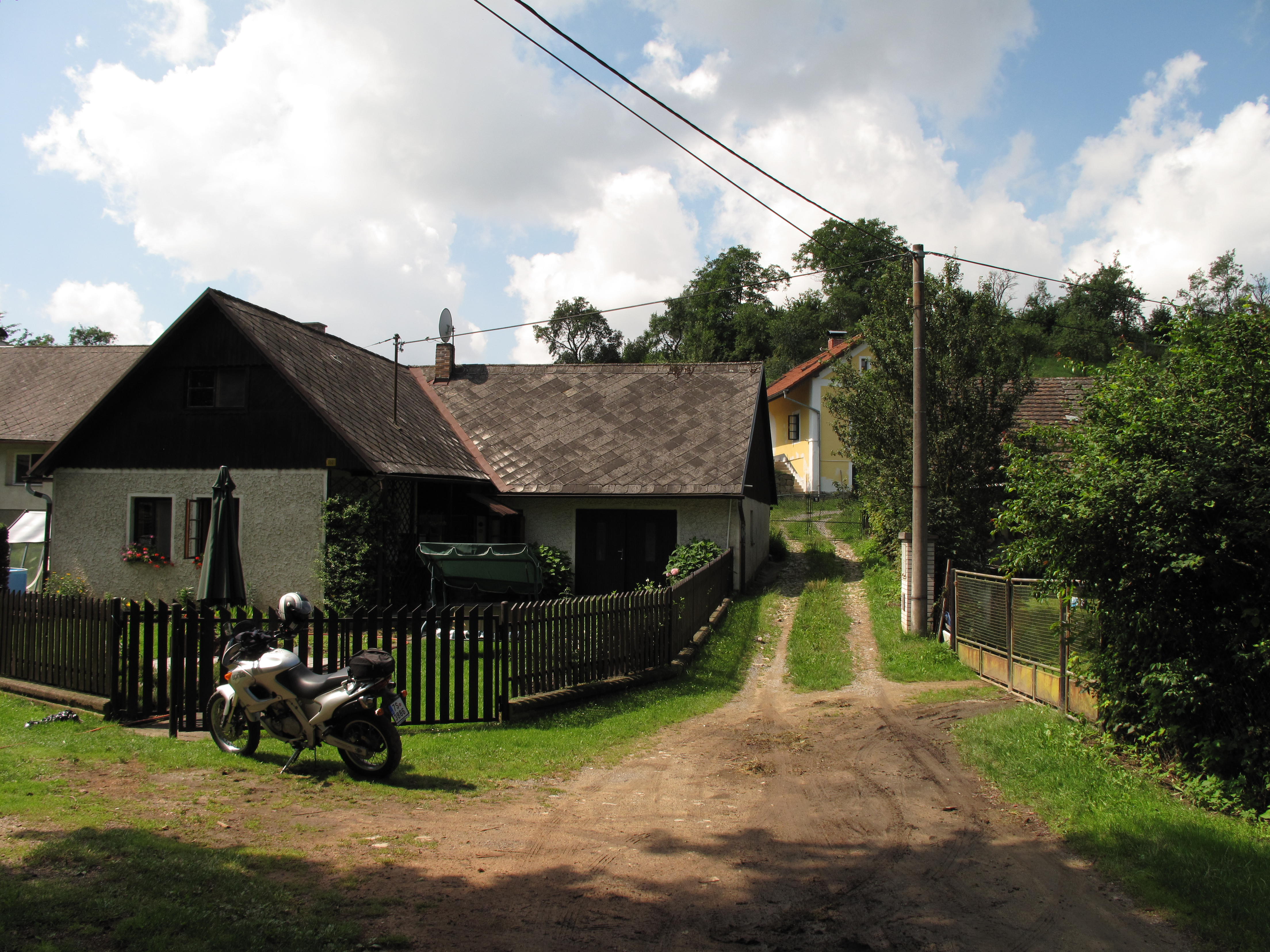 This photograph was taken within the scope of the second year of the 'Czech Municipalities Photographs' grant.